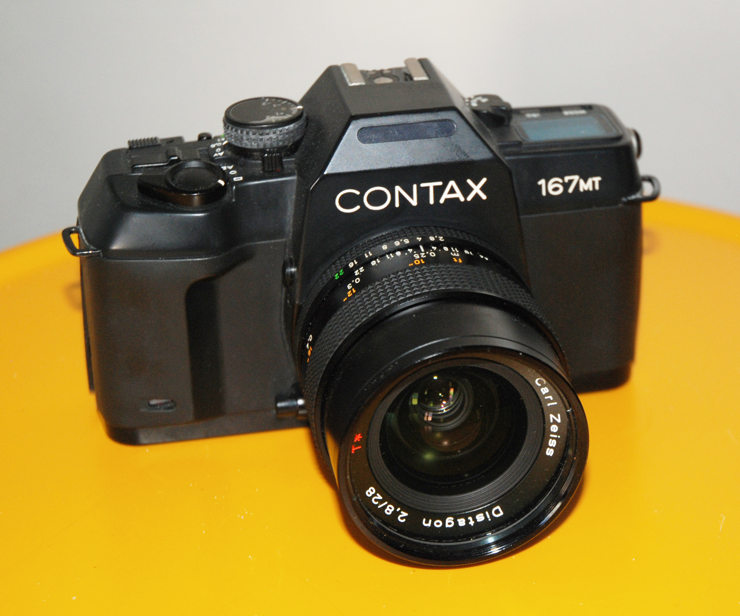 Photograph of a Contax 167MT with a Carl Zeiss 28mm F2.8 lens